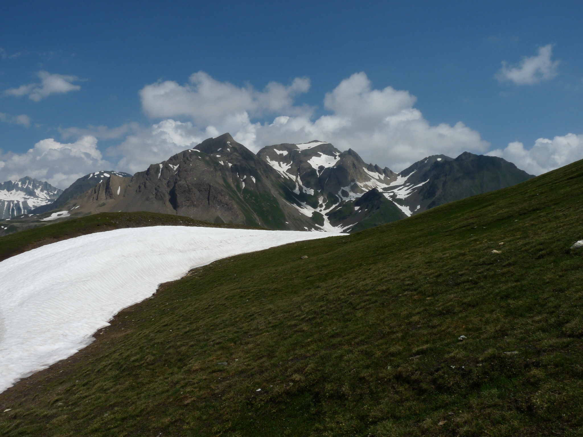 Grieshorn from the path down from the rifuge Città di Busto.